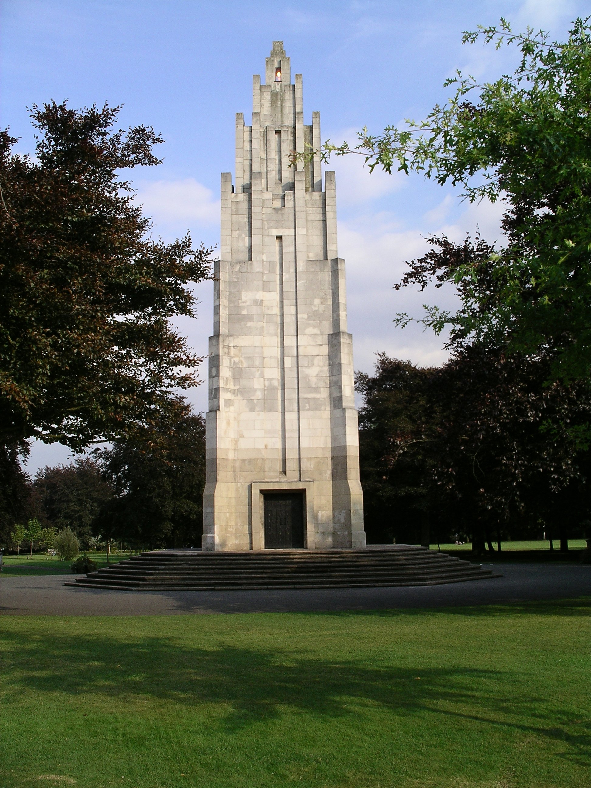 Photo taken by me in the afternoon of 14 August 2006 of the monument in the War Memorial Park, Coventry, England.